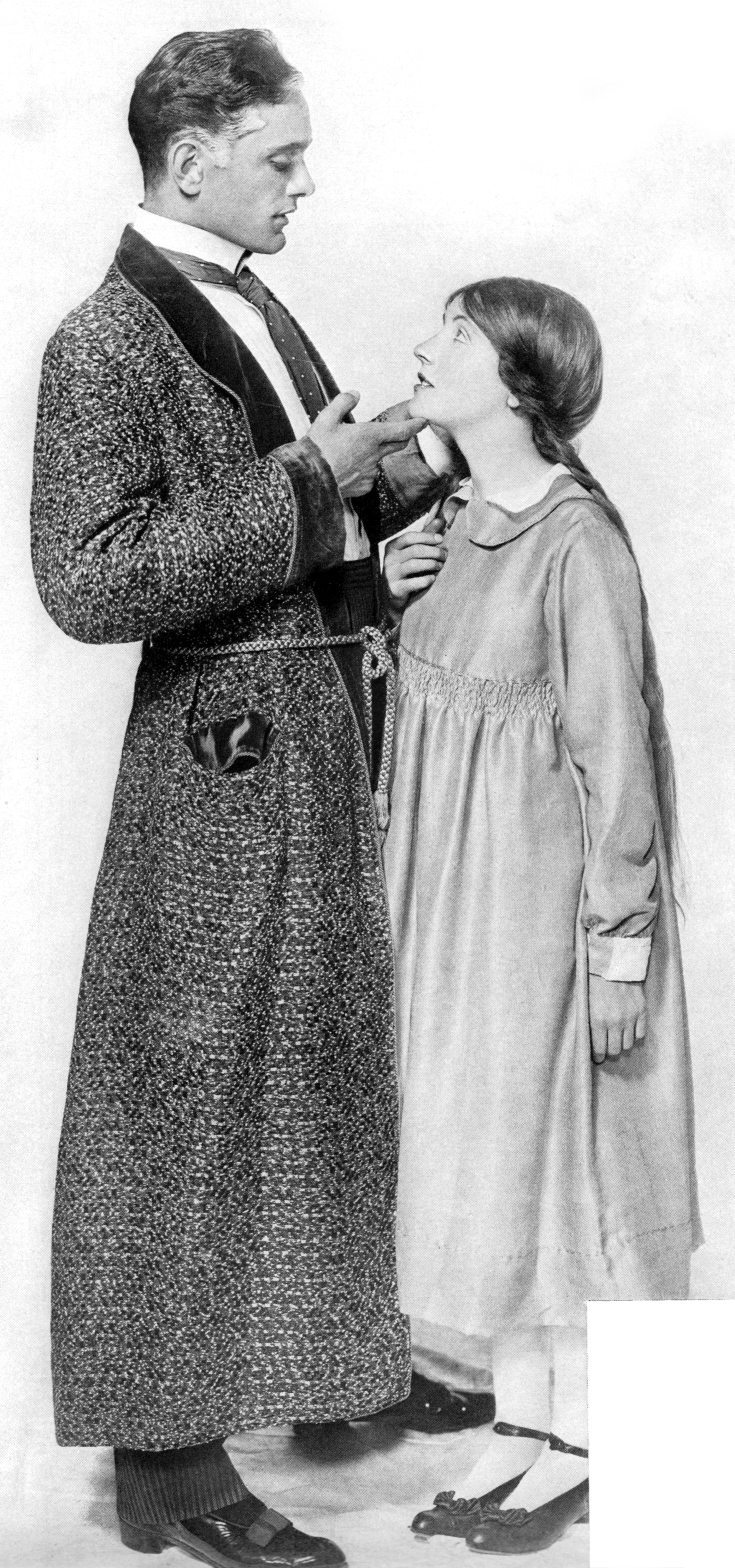 Promotional photograph for the Broadway production of Pollyanna, starring Philip Merivale and Patricia Collinge Caption reads (in part) as follows: Pendleton (Mr. Philip Merivale) chucks Pollyanna (Miss Patricia Collinge) under the chin